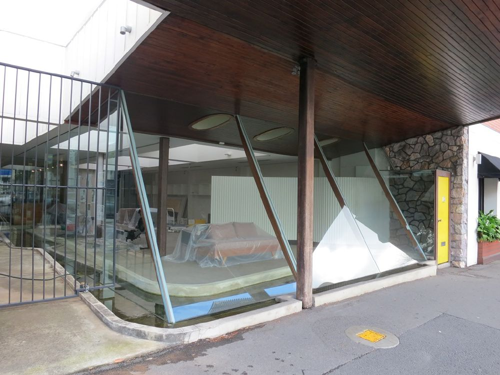 Shopfront exterior (2015)